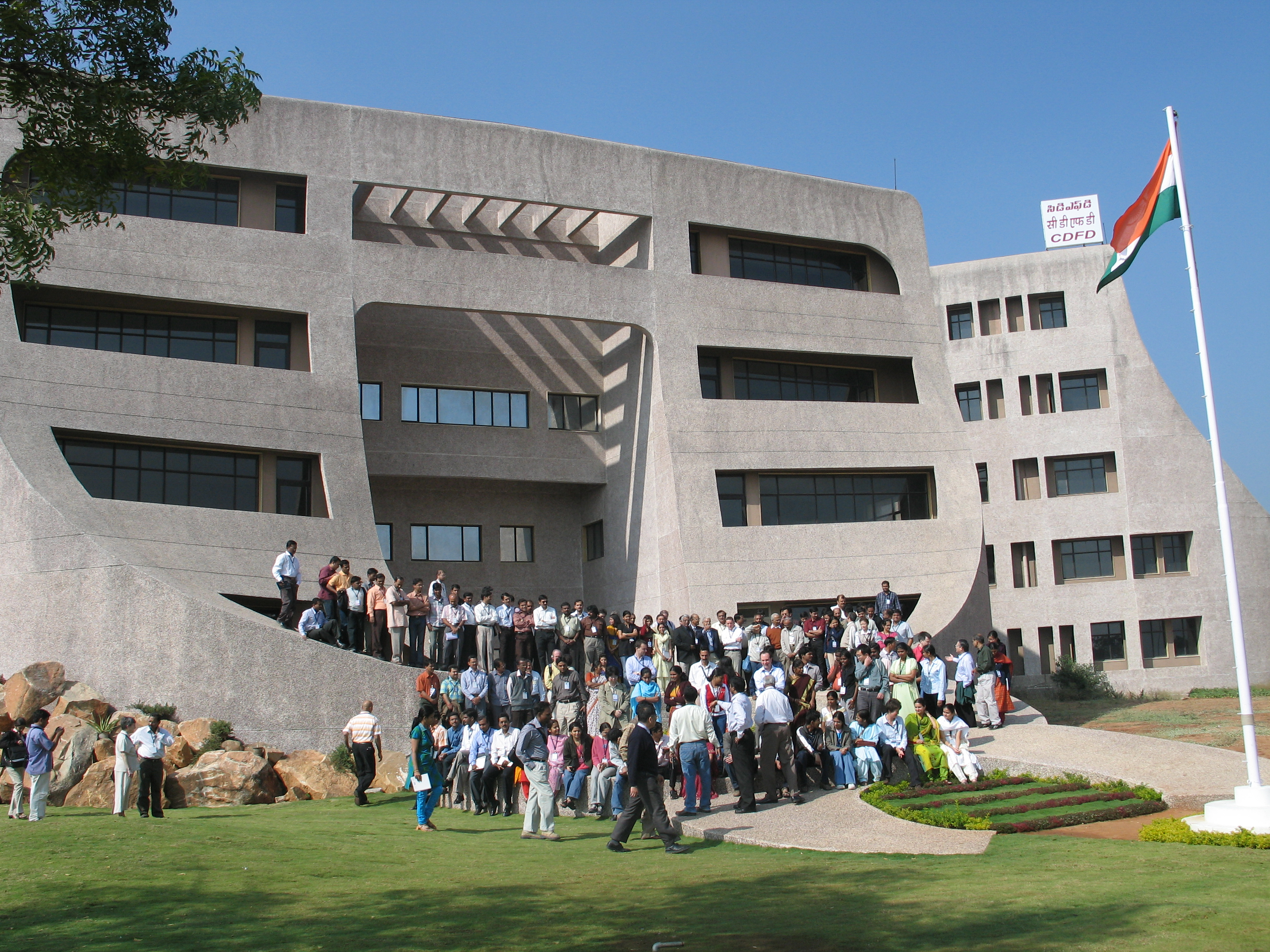 The photo was taken during an international symposium ( by Sunil Archak